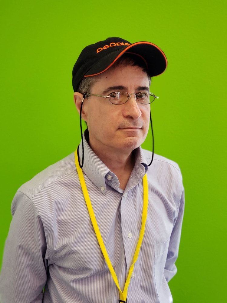 Rick Goodman's photo from PeopleFun